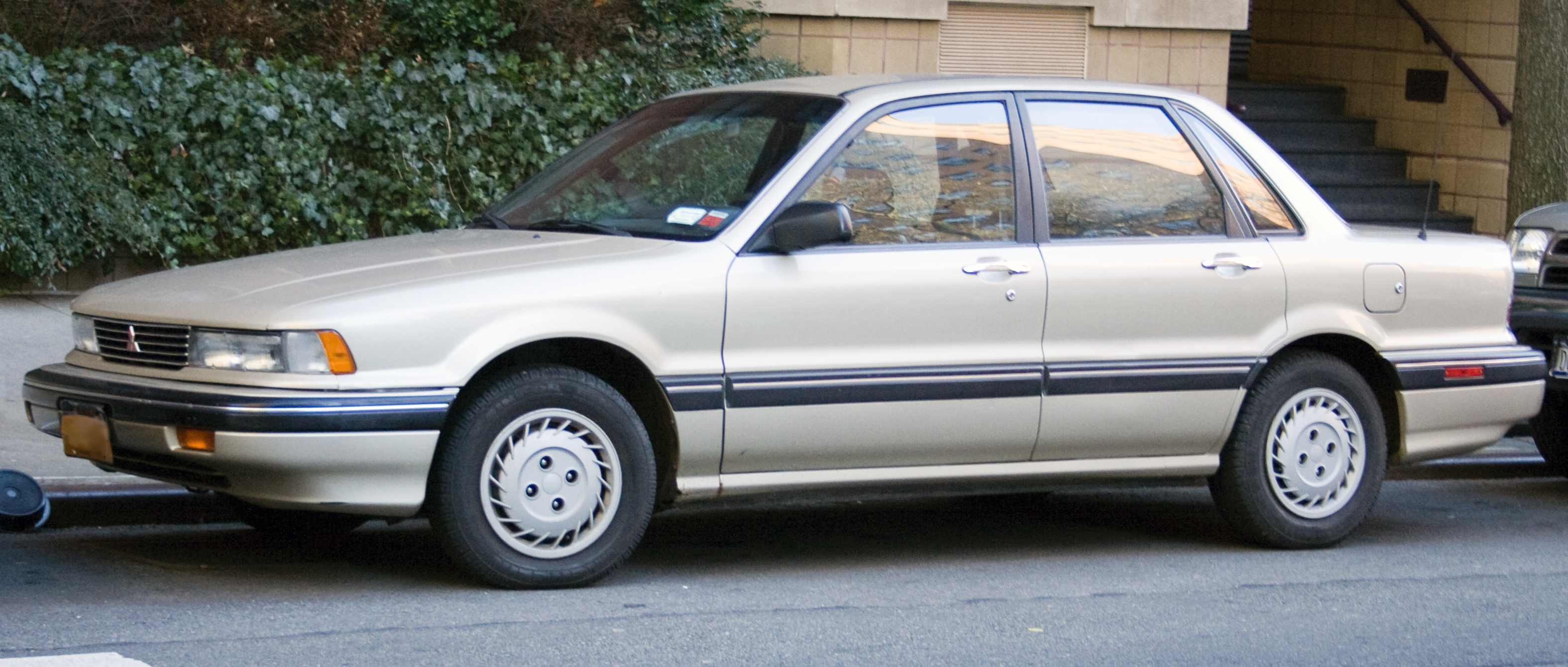 1990 Mitsubishi Galant (US market)